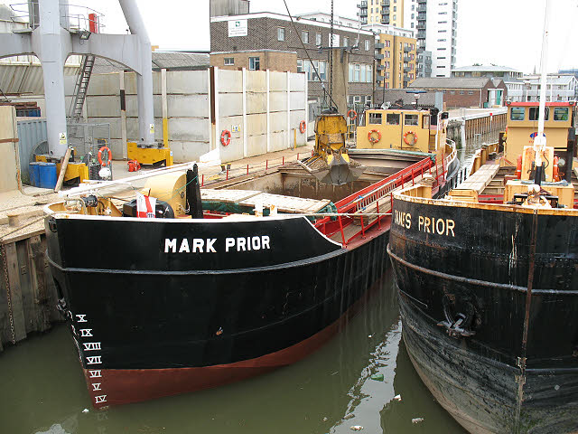 Unloading the Mark Prior (1), near to Isle of Dogs, Tower Hamlets, Great Britain. Aggregate is being unloaded by a dockside crane from the Mark Prior (left) into the hoppers of a concrete batching plant at Brewery Wharf on the Greenwich side of Deptford Creek. The boat is one of seven plying the Thames. Company website: Link